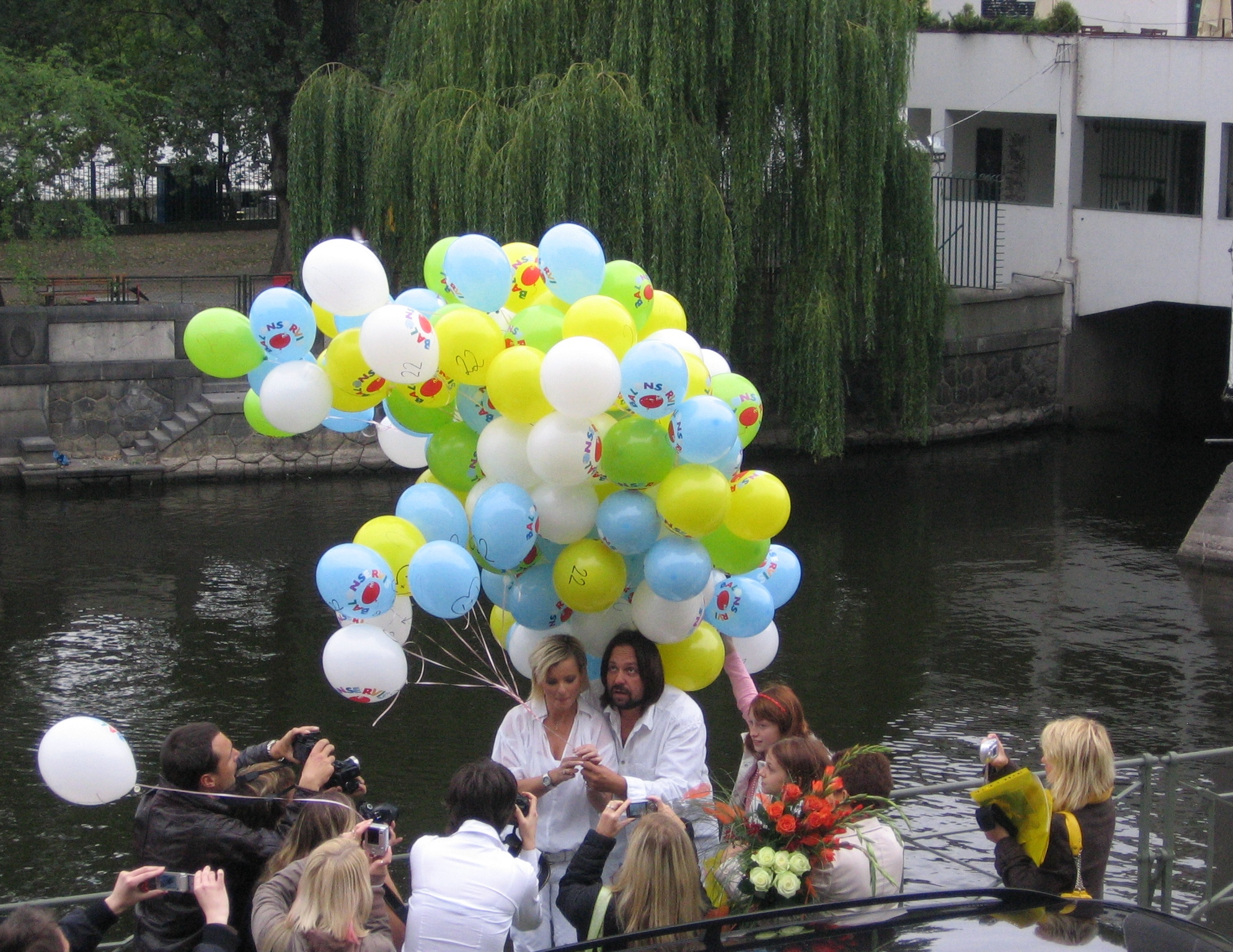 Iveta Bartošová and Jiří Pomeje, Mánes, Prague